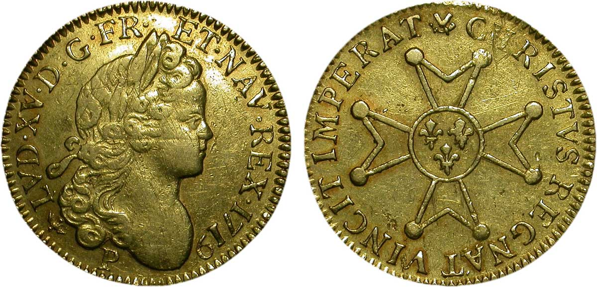 Louis à la croix du Saint-Esprit, 1719 Paris